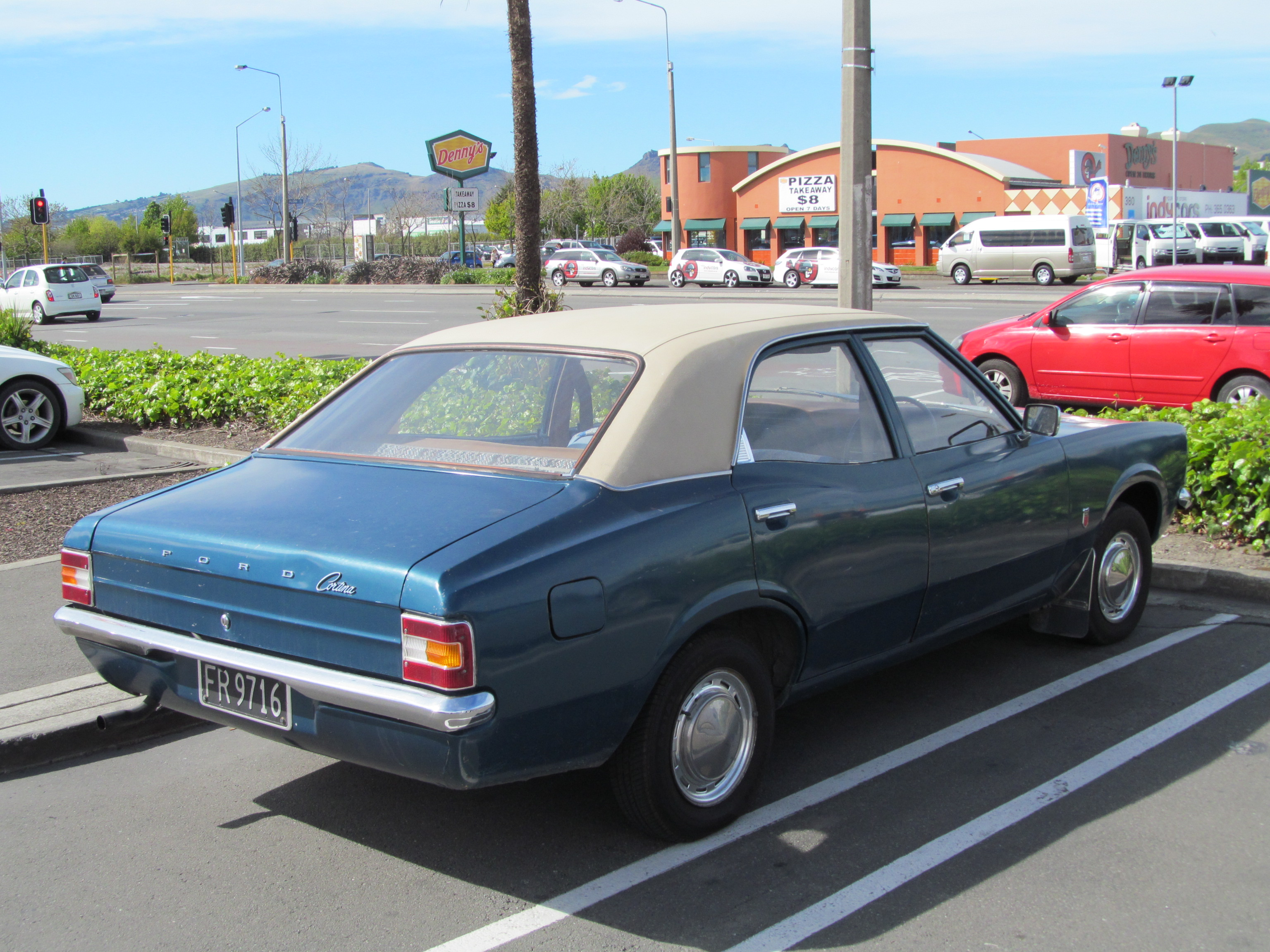 I'm wondering whether that vinyl roof is original, as surely if it was it would be a bit ragged 42 years on?